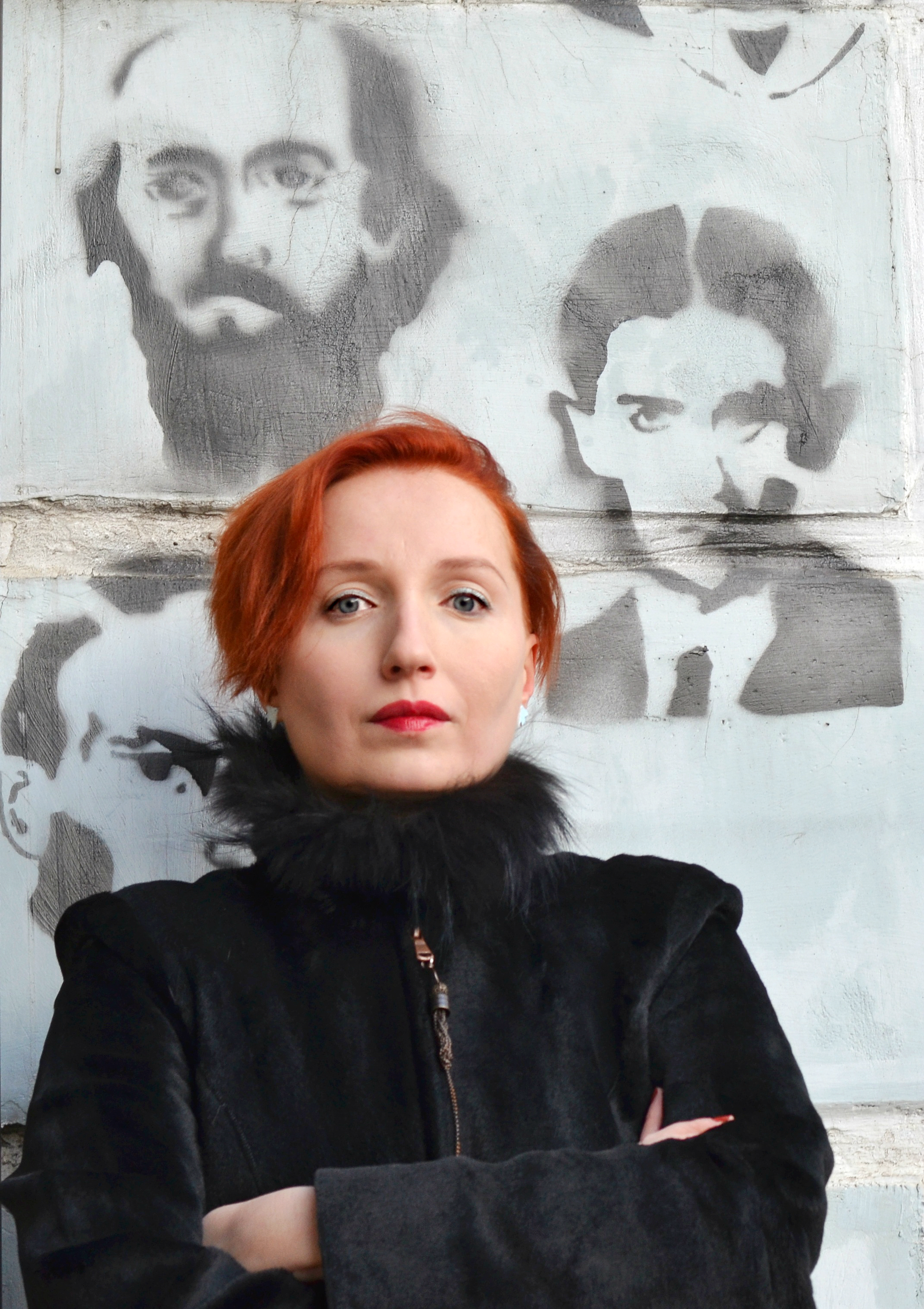 Ukrainian writer Kateryna Kalytko